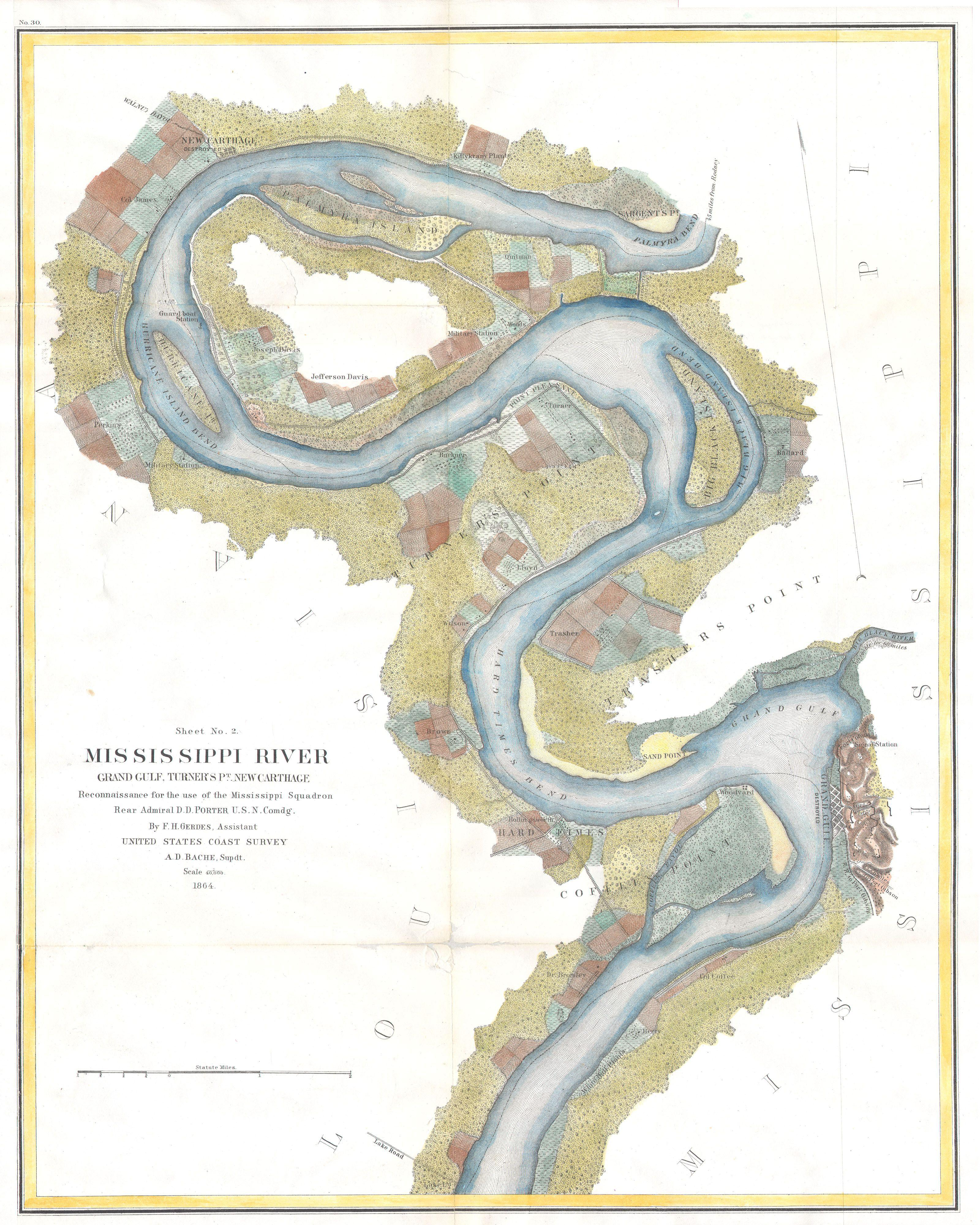 This is a beautiful hand colored 1864 United States Costal Survey chart or map of a sinuous part of the Mississippi River from Grand Gulf, Mississippi to New Carthage, Louisiana. The bends in the river are named, as are the many river islands shown. Notes towns, wood lots, landings and farms, many of which are shown with family names. This map is especially important for Civil War buffs as it includes the Jefferson Davis Plantation. This map was created under the direction of A. D. Bache, Superintendent of the Survey of the Coast of the United States and one of the most influential American cartographers of the 19th century.